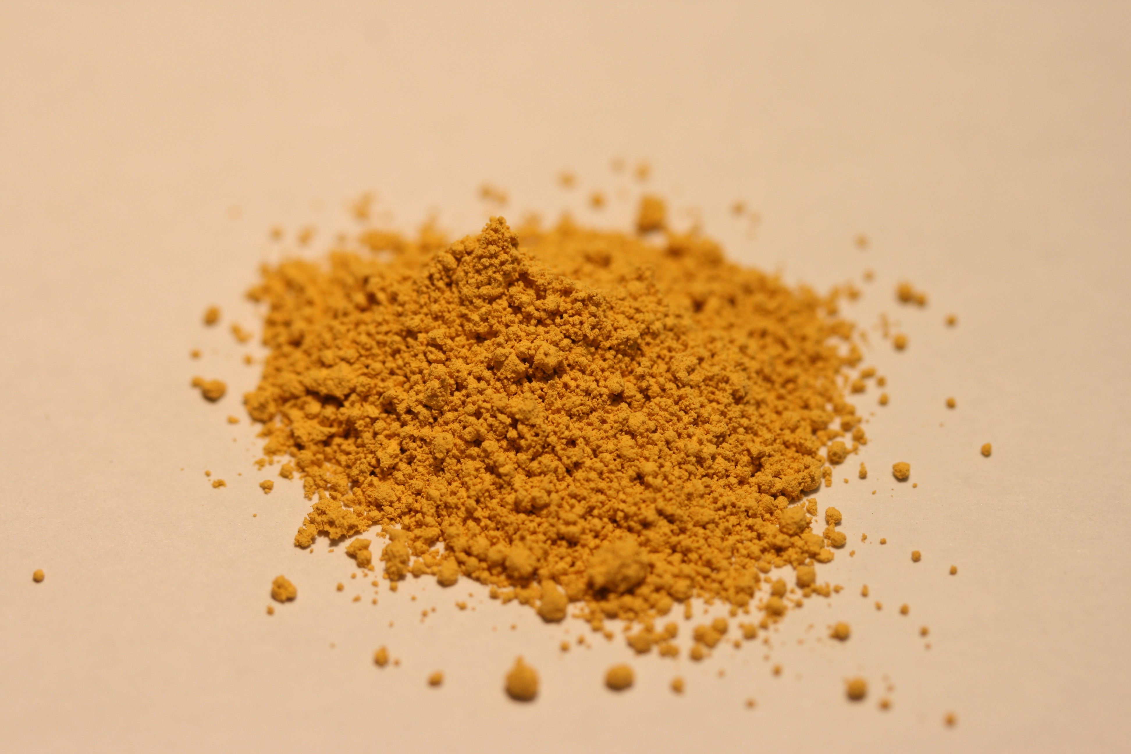 Goldochre